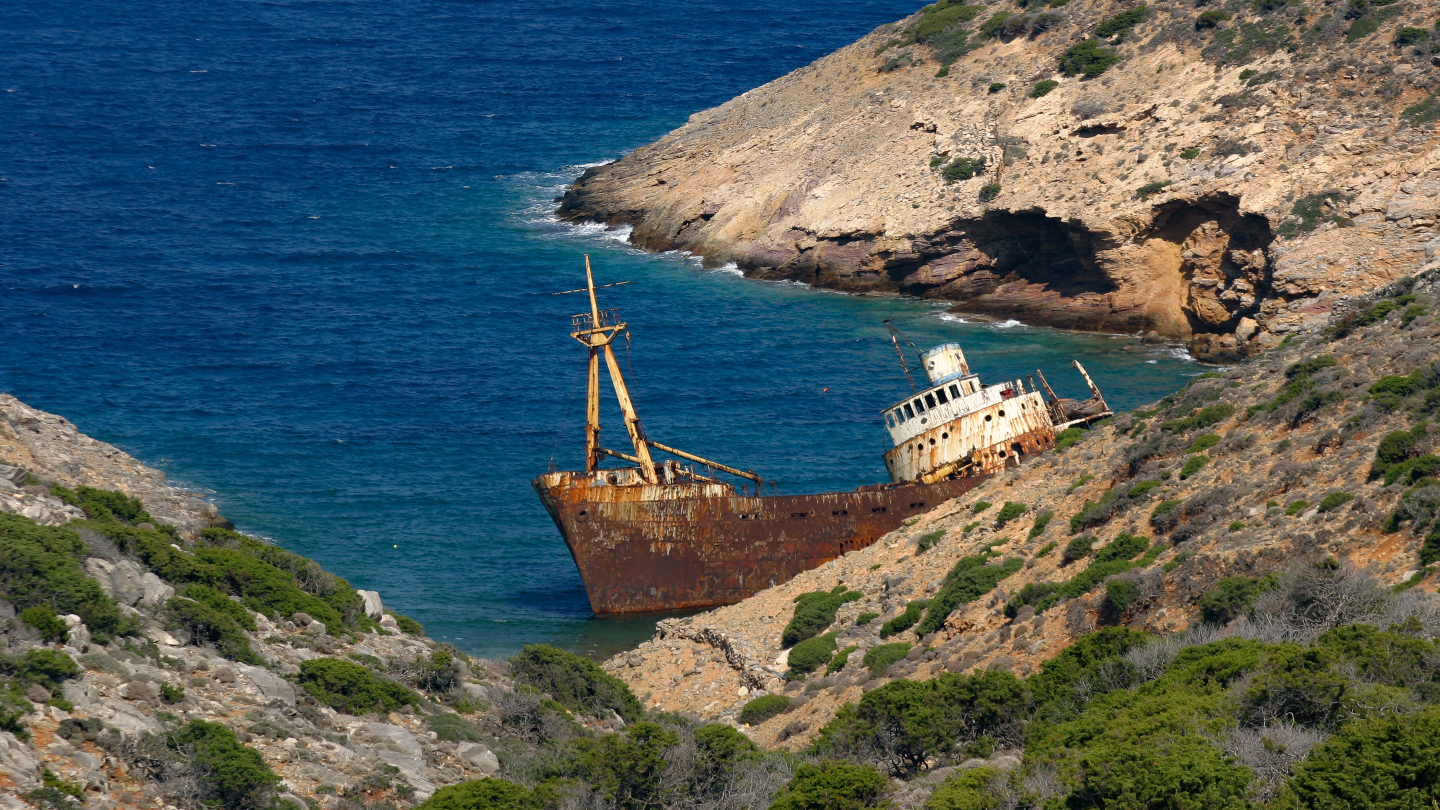 The wessel Olympia, wrecked 1980 on the shore of Amorgos